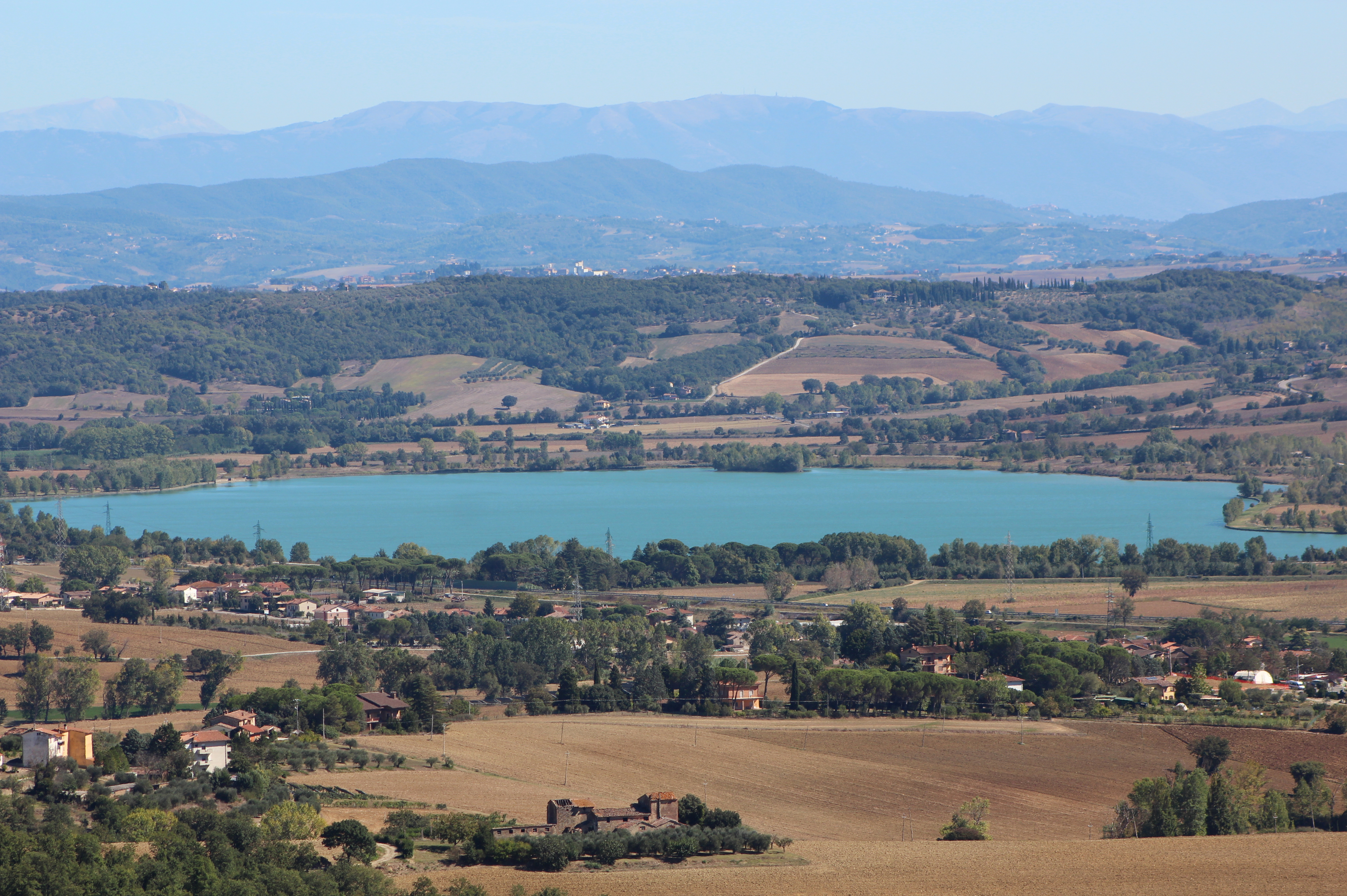 Lake Lago di Pietrafitta, Pietrafitta, hamlet of Piegaro, Umbria, Italy